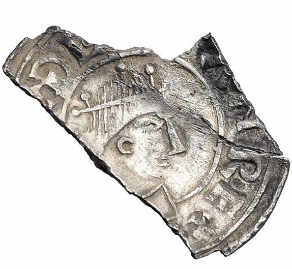 Aethlestan penny From Rasiel's Kings and Queens of England Coin Collection